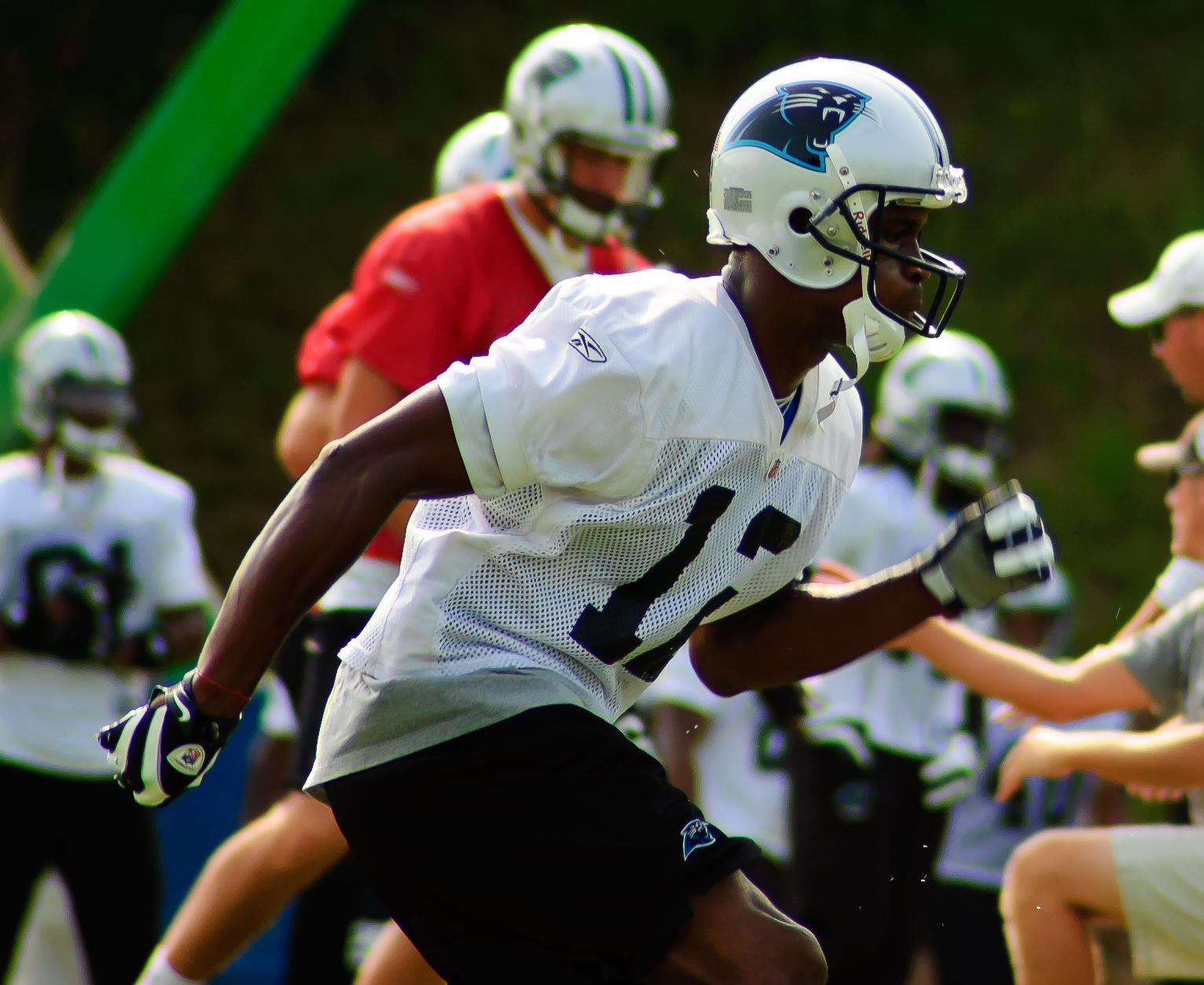 Carolina Panthers Training Camp on August 11, 2010 at Wofford College in Spartanburg, SC.